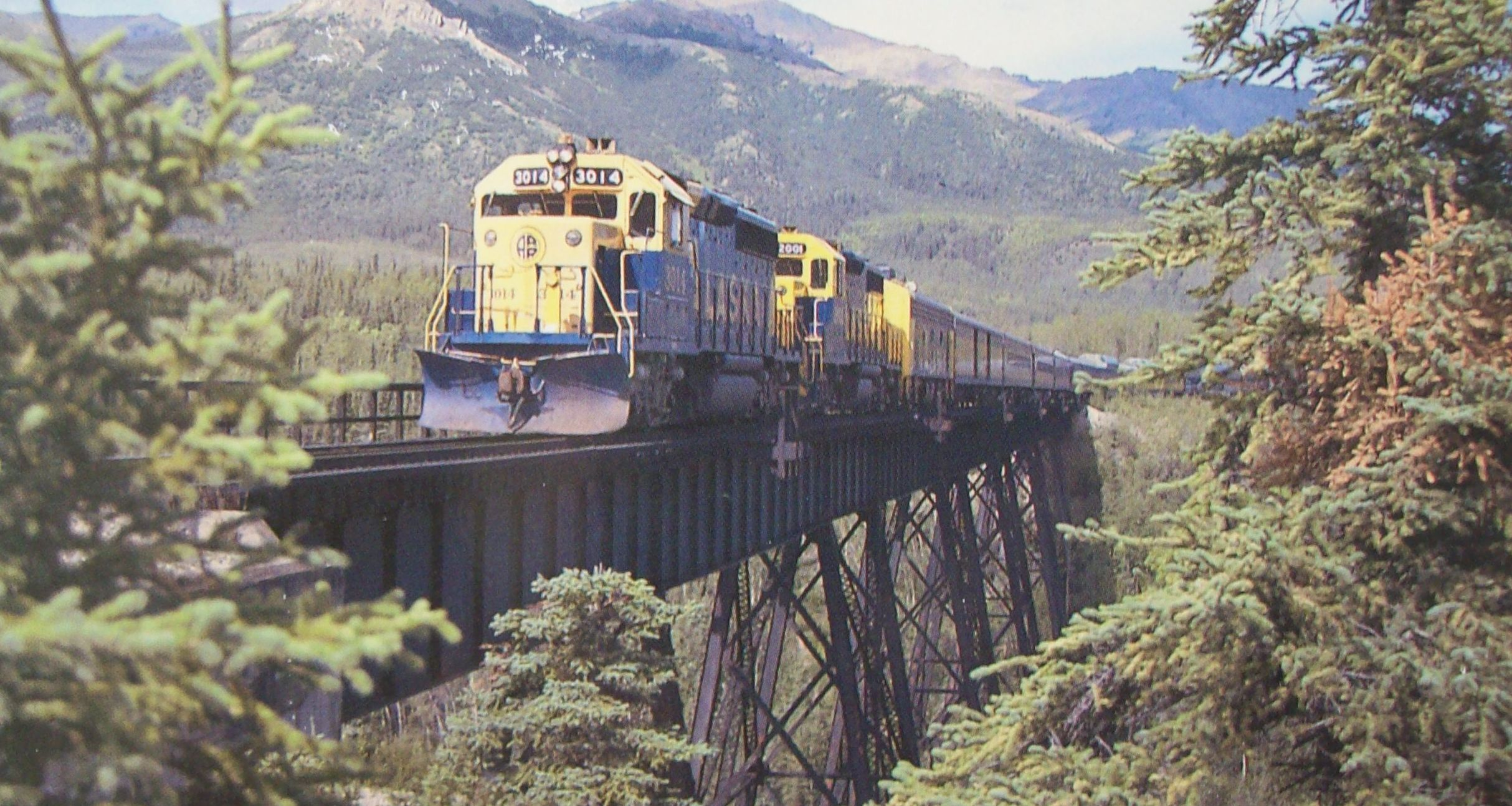 The Alaska Railroad, rolling between Anchorange, Denali National Park and Fairbanks.